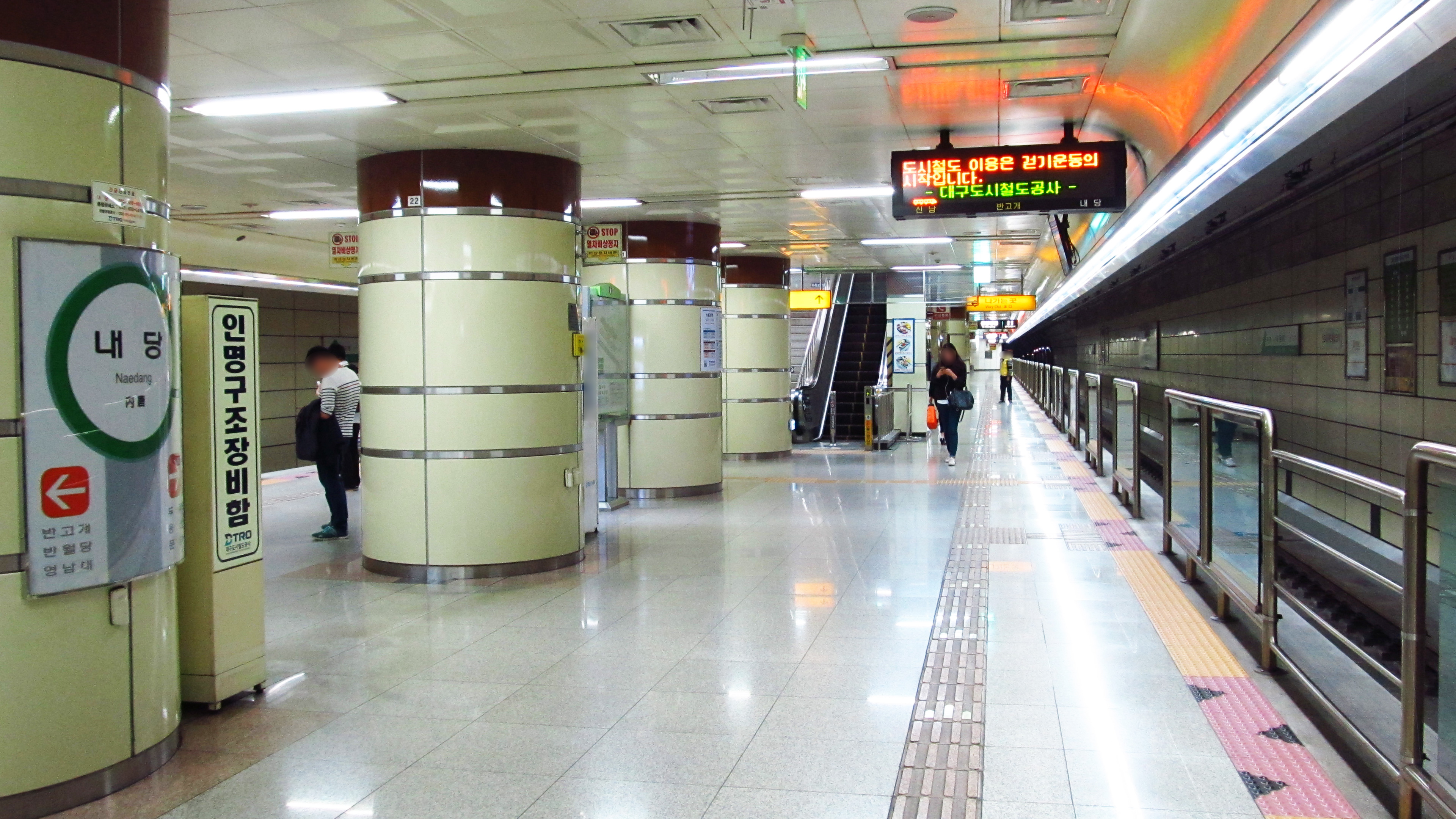 The platform of Naedang Station on the Daegu Metro Line 2